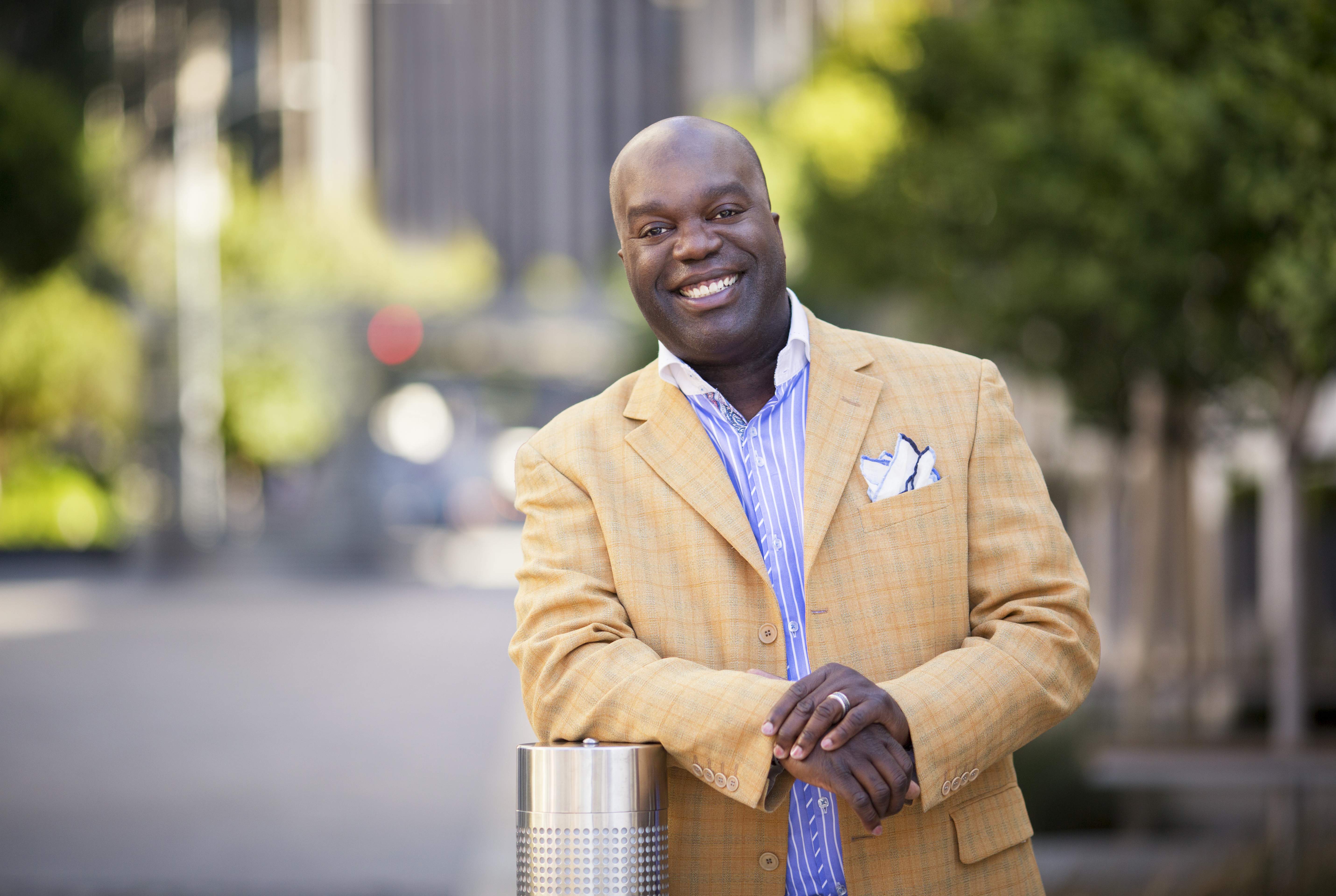 Headshot photo of Simon T. Bailey.